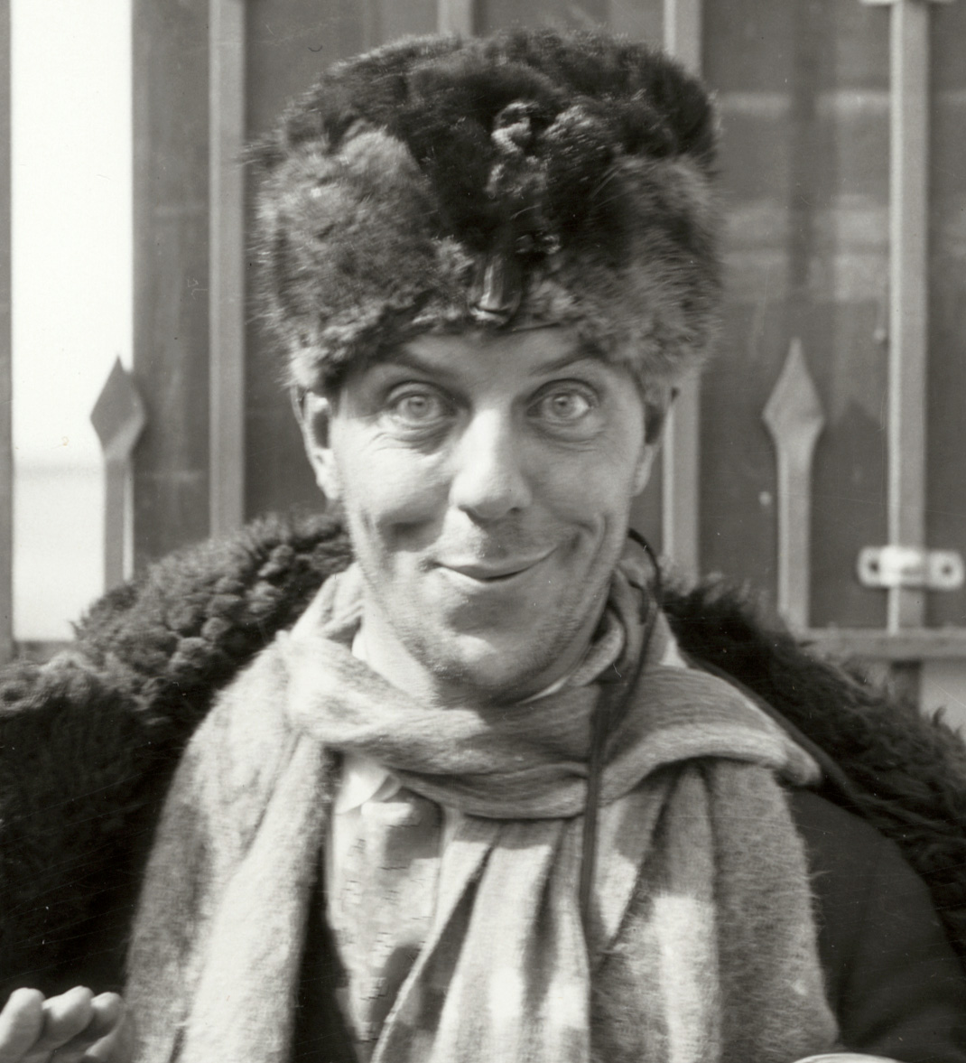 Karl Dane wearing and carrying a variety of clothes, including a fur hat, poses by the MGM studio gate in a 1927 publicity still.